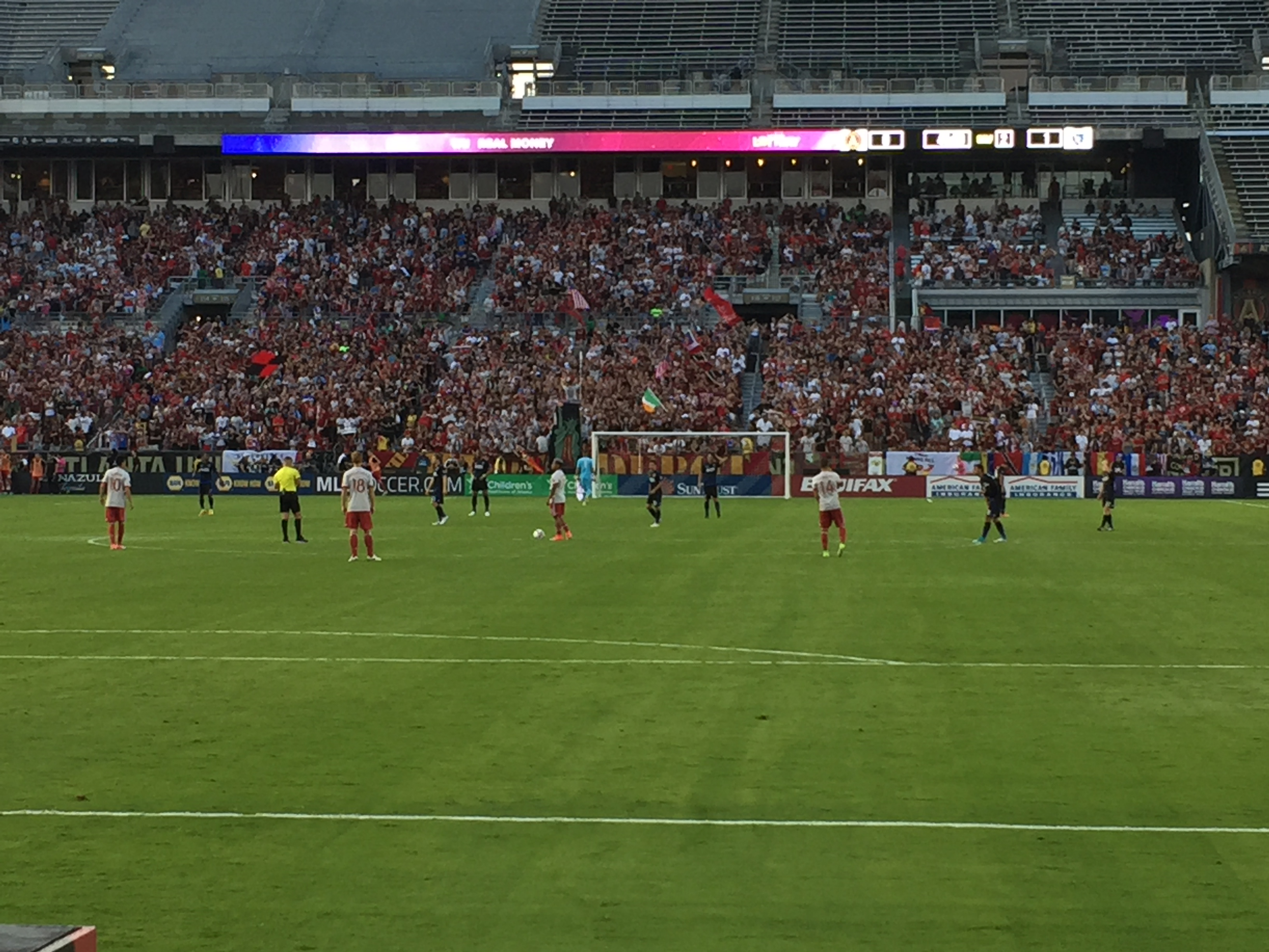 2017-07-04 - Atlanta United vs San Jose Earthquakes